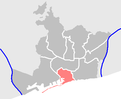 Locator maps of districts/ neighbourhoods in Barcelona: Map - Barcelona - Ciudad Vieja.PNG